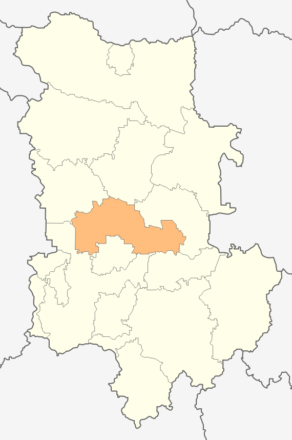 Map of Maritsa municipality, Plovdiv Province